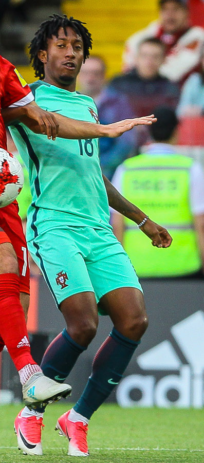 Russia VS. Portugal 0 - 1, 21 June 2017